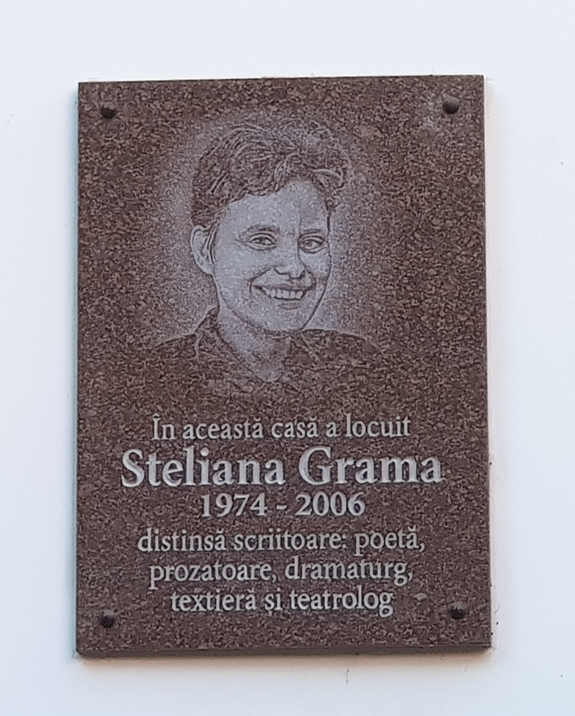 Commemorative plaque dedicated to Steliana Grama.